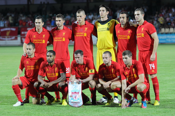 Standing: Stewart Downing, Fabio Borini, Martin Skrtel, Brad Jones, Jose Enrique, Jordan Henderson Sitting: Joe Cole, Glen Johnson, Jamie Carragher, Jay Spearing, Steven Gerrard